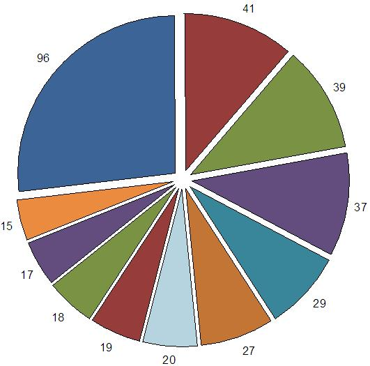 Split of Swiss popular initiatives by topic (1890-2010): 41: Transport 39: Popular rights 37: Taxes 29: Social insurences 27: Military and army 20: Foreigners and imigration 19: Society in general 18: Retirement program 17: Ecology and nature protection 15: Working environment 96: Others